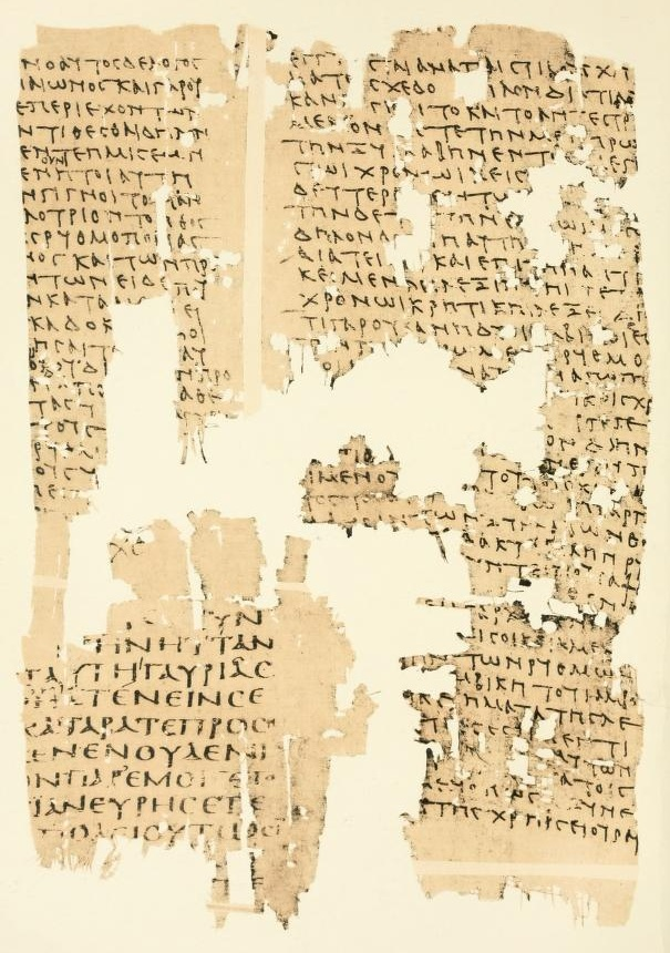 fragment of copy of Aristoxenus, Rythmica Stoicheia